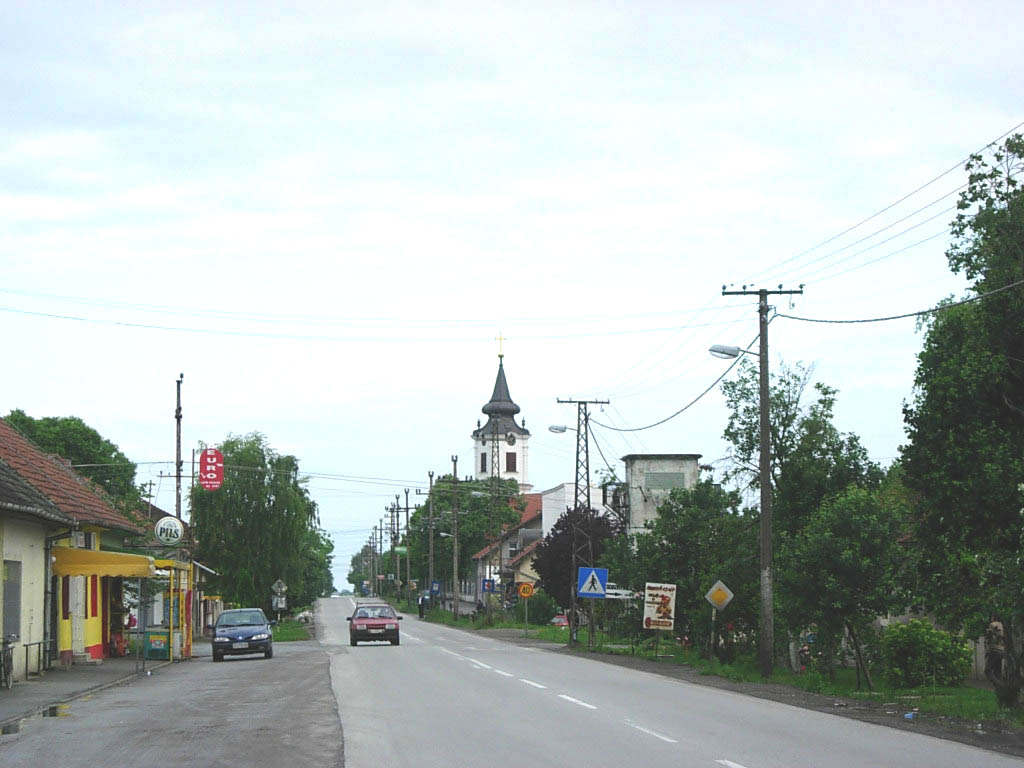 The main street in Rumenka and the Orthodox Church.